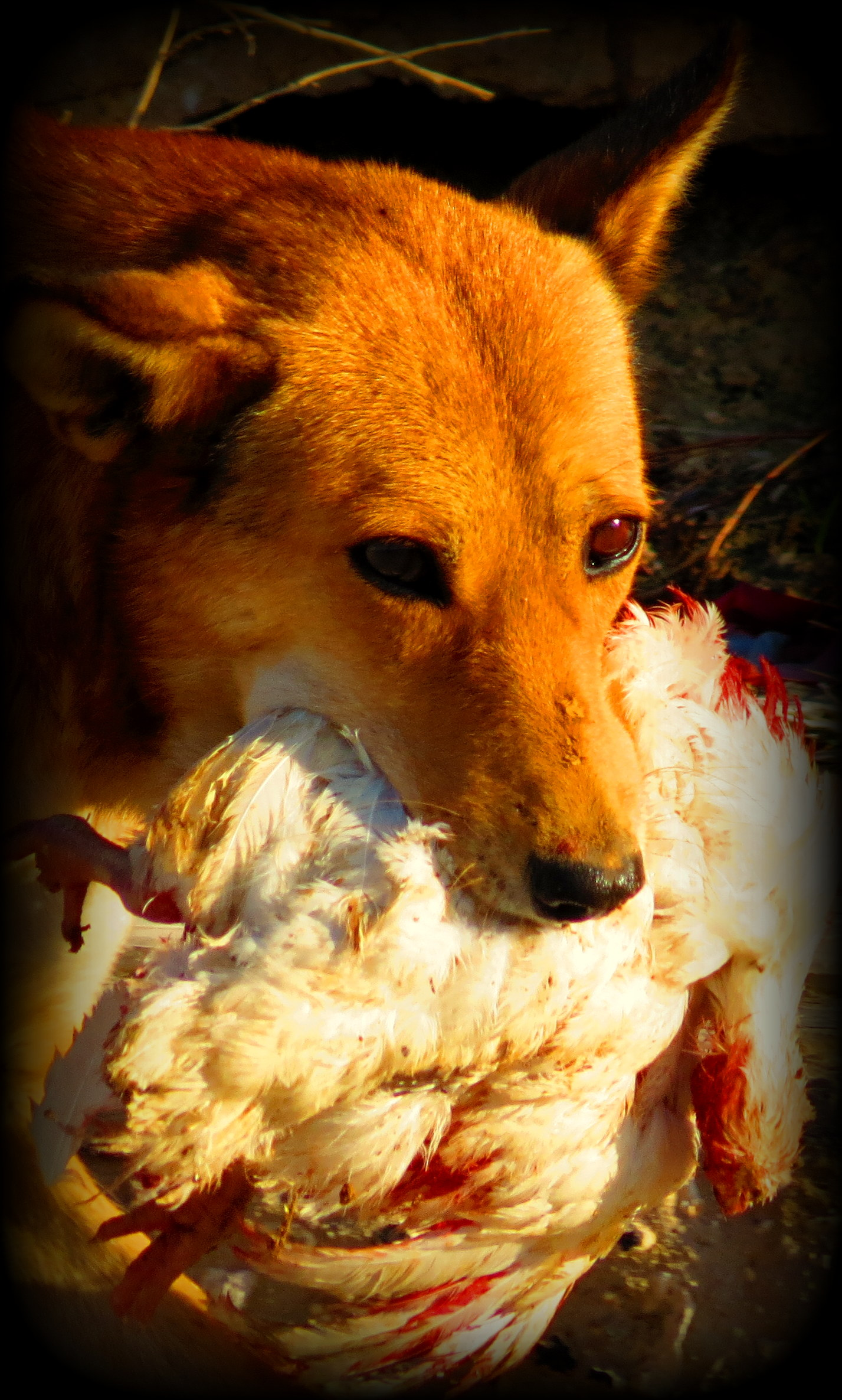 Street dog , south hebron